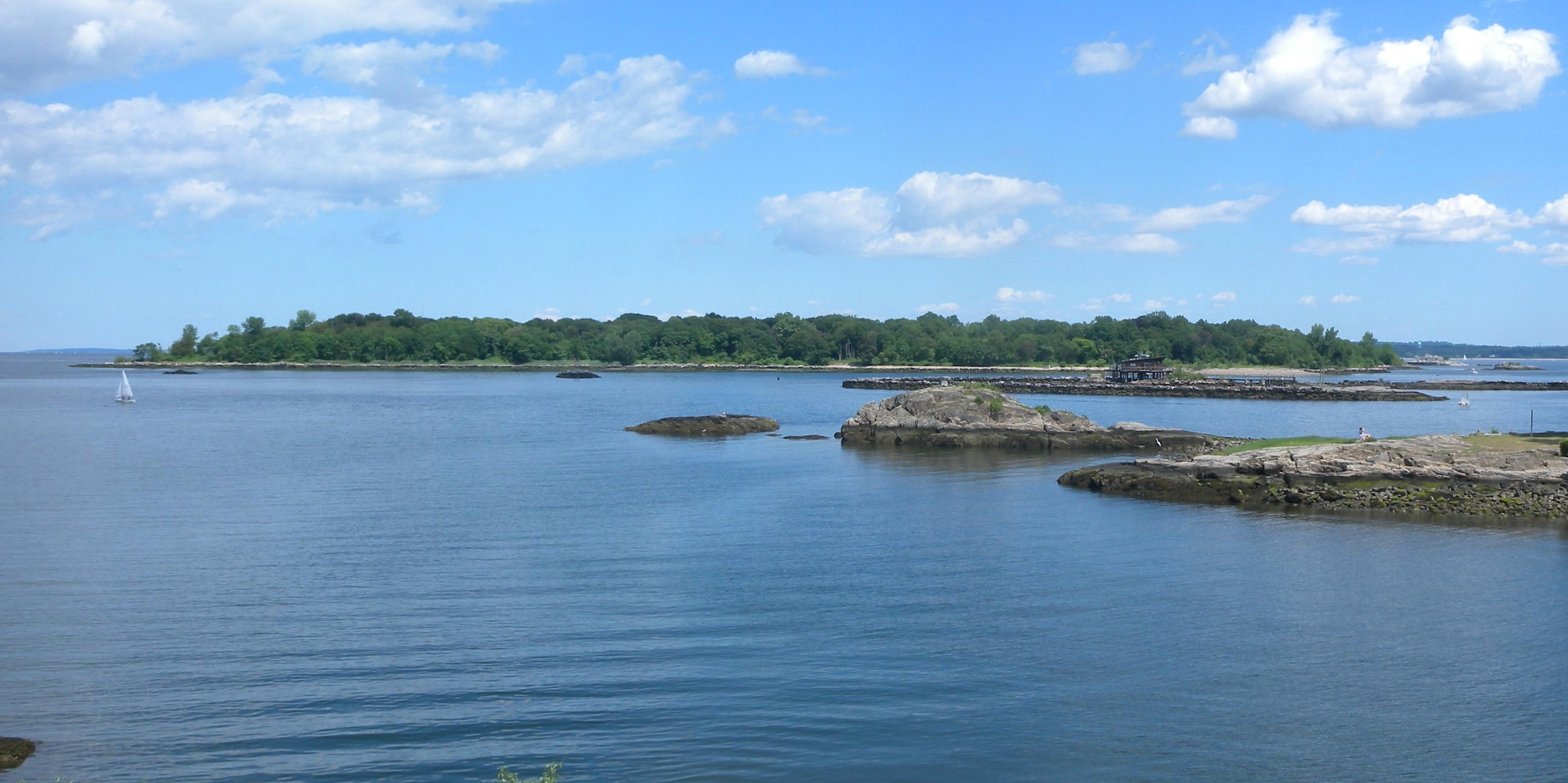 Looking east at Goose Island on a sunny midday.